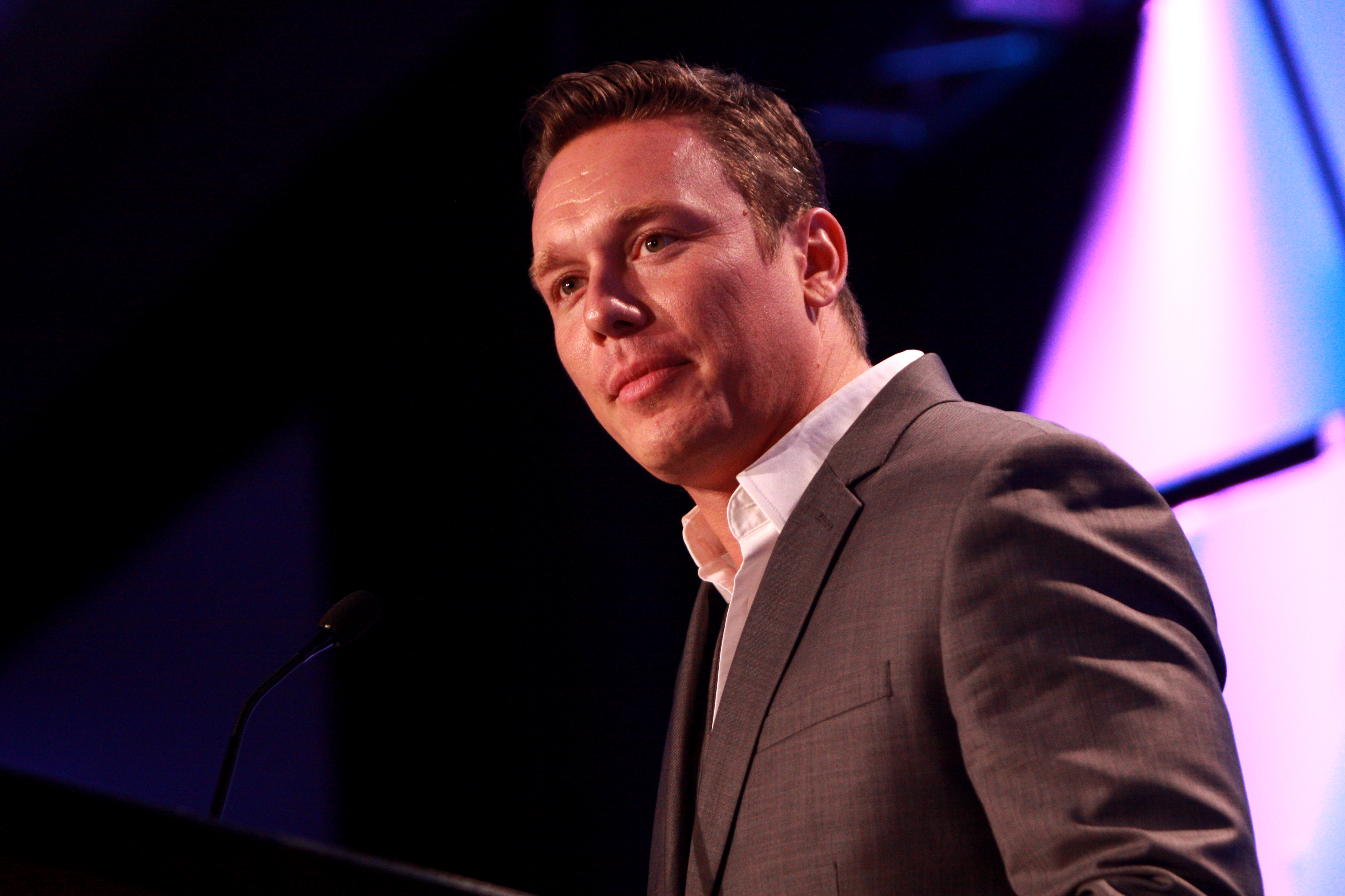 Ben Swann speaking at the 2013 Liberty Political Action Conference (LPAC) in Chantilly, Virginia.